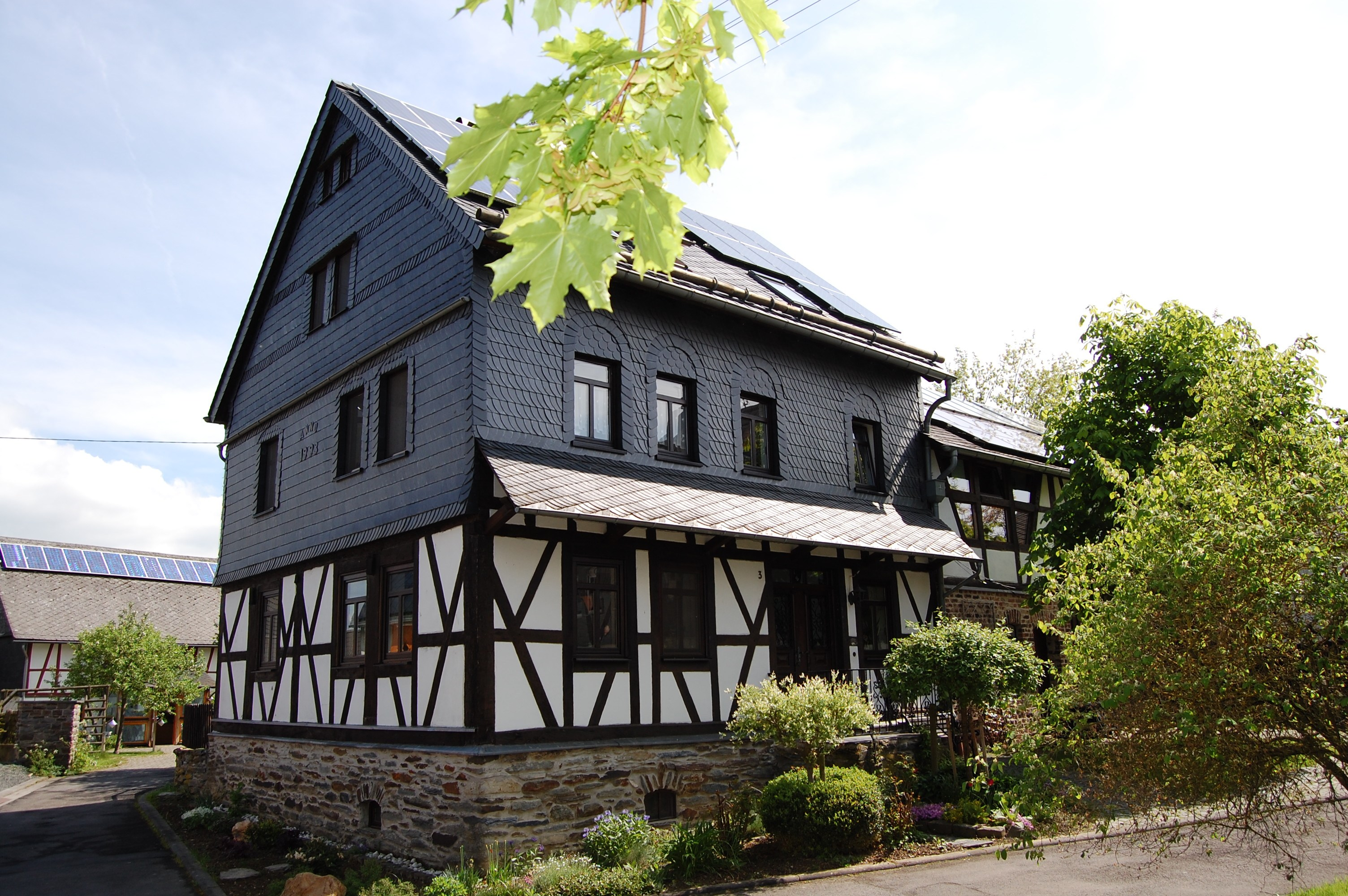 Impression Ober Kostenz, Hunsrück landscape; Germany.